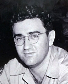 Jerry Siegel, author of Superman, during his service in the US Army in Hawaii. Cropped version of File:Jerry Siegel 1943.jpg